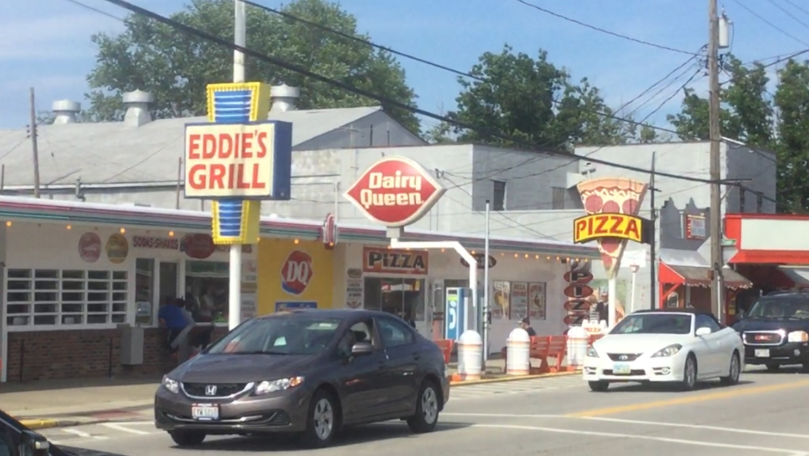 Eddie's Grill in Geneva on the lake